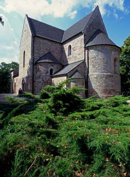 Church Piter and Pawel in Kruszwica